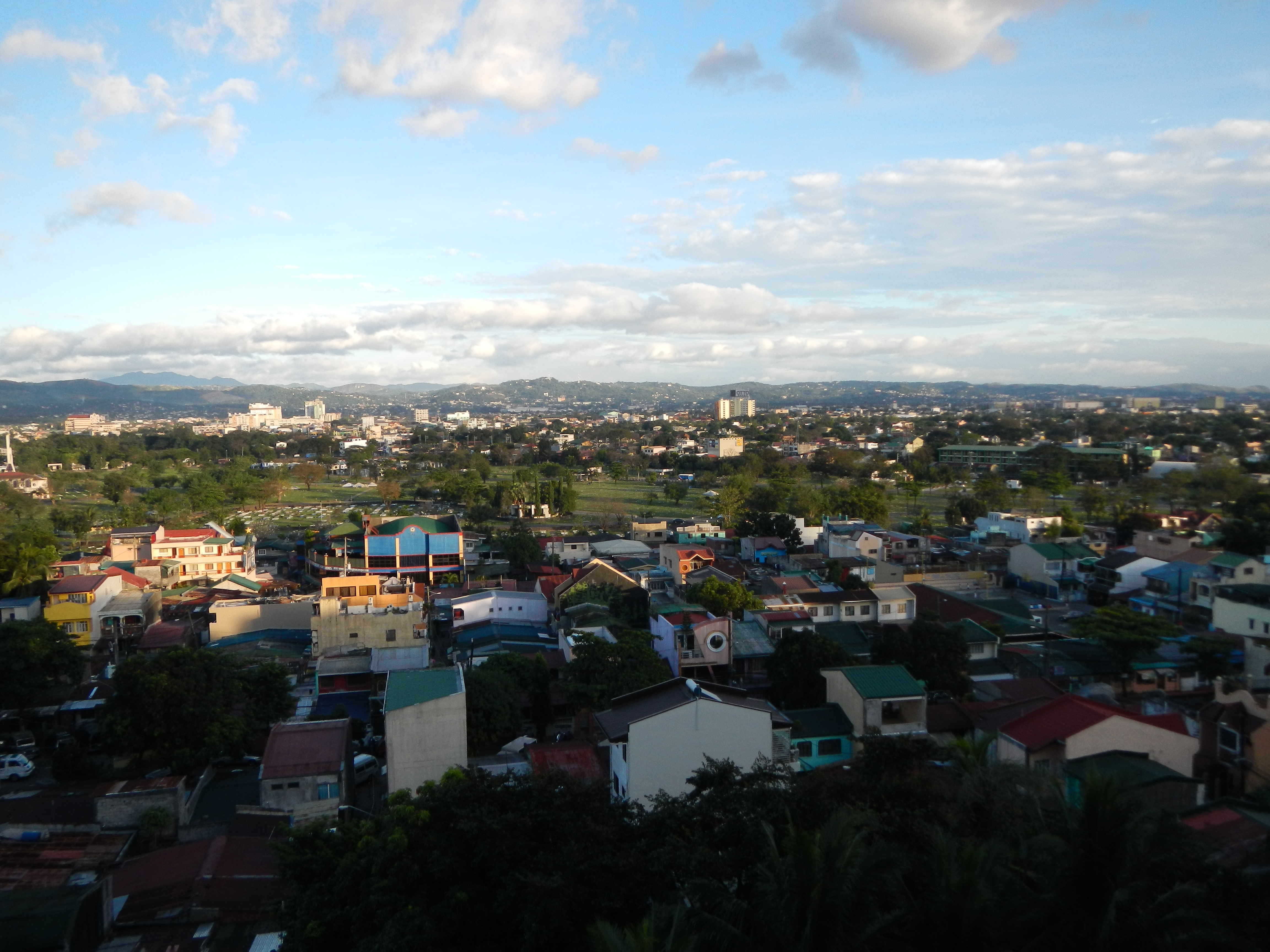 [1]Barangka, Marikina- view from Loyola House of Studies (Ateneo de Manila) and Loyola School of Theology